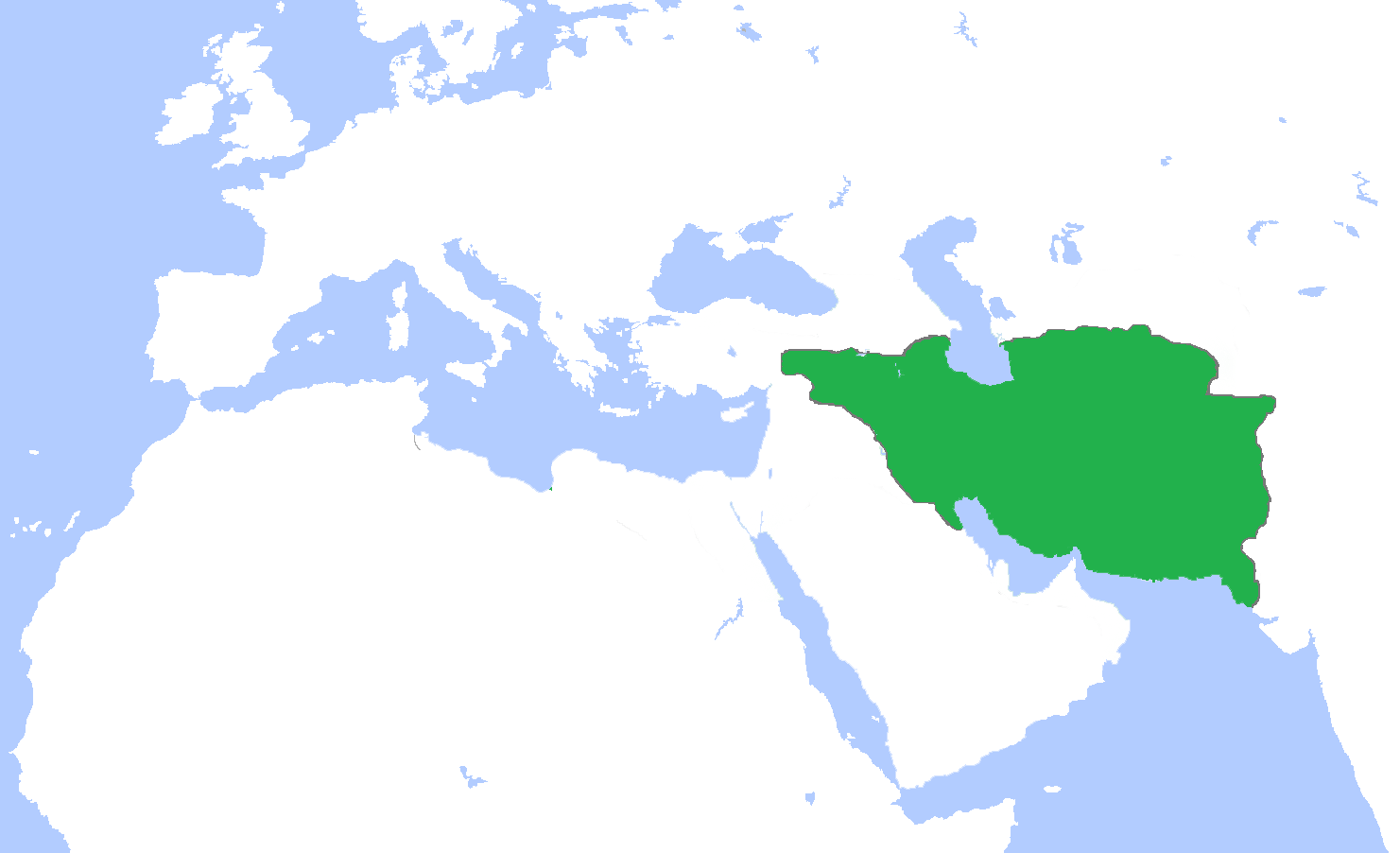 This is a map of the Parthian Empire at it's greatest extent.